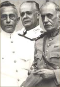 Military junta of 1930, Augusto Fragoso, Isaías Noronha e João de Deus Mena Barreto.